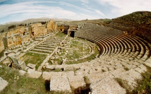 Description= Roman Theatre, Khamissa (Algeria) photo token by M.GASMI 2005. Source= Own photograph by uploader. Author= M.GASMI.